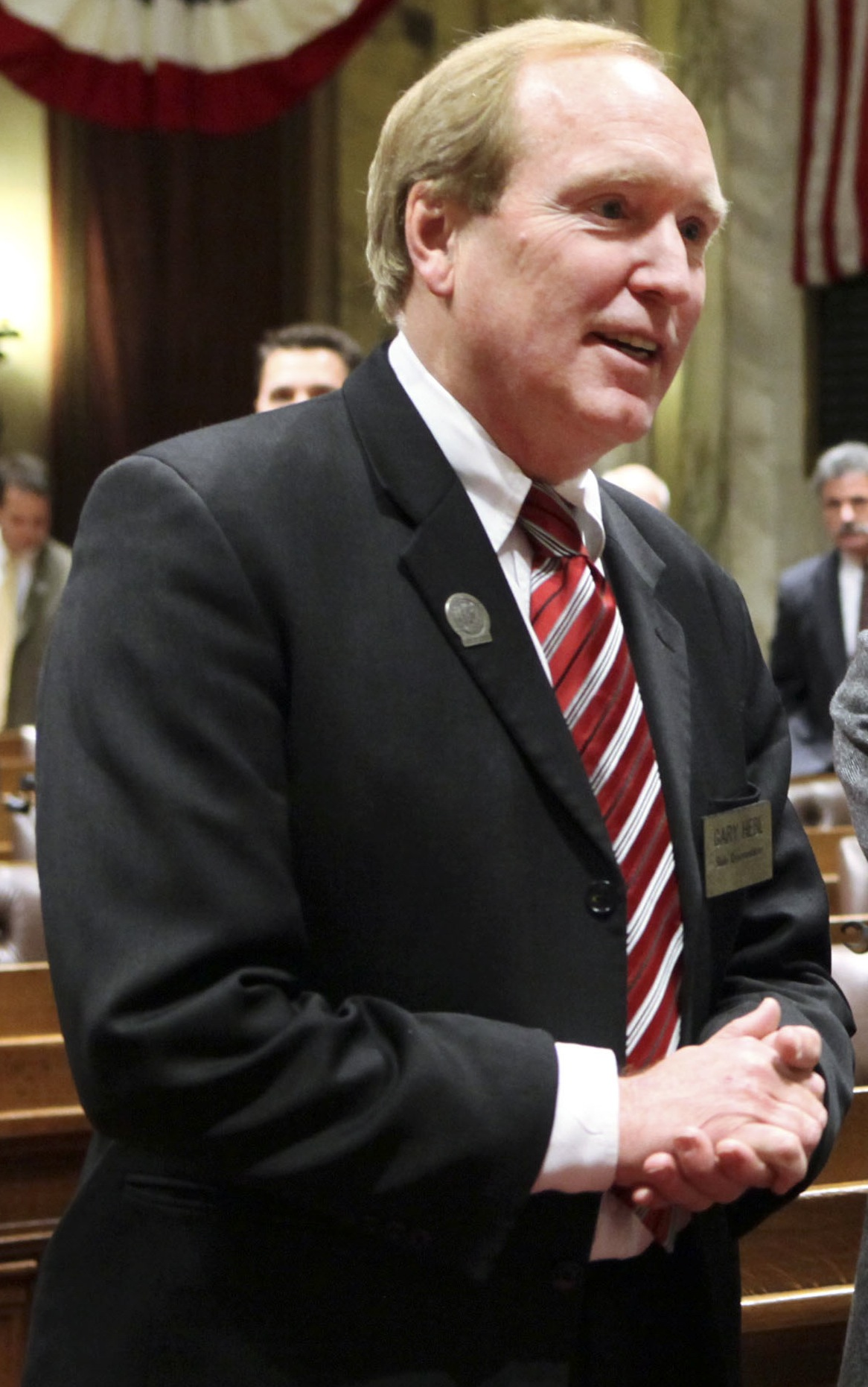 Wisconsin State Assemblyman Gary Hebl.